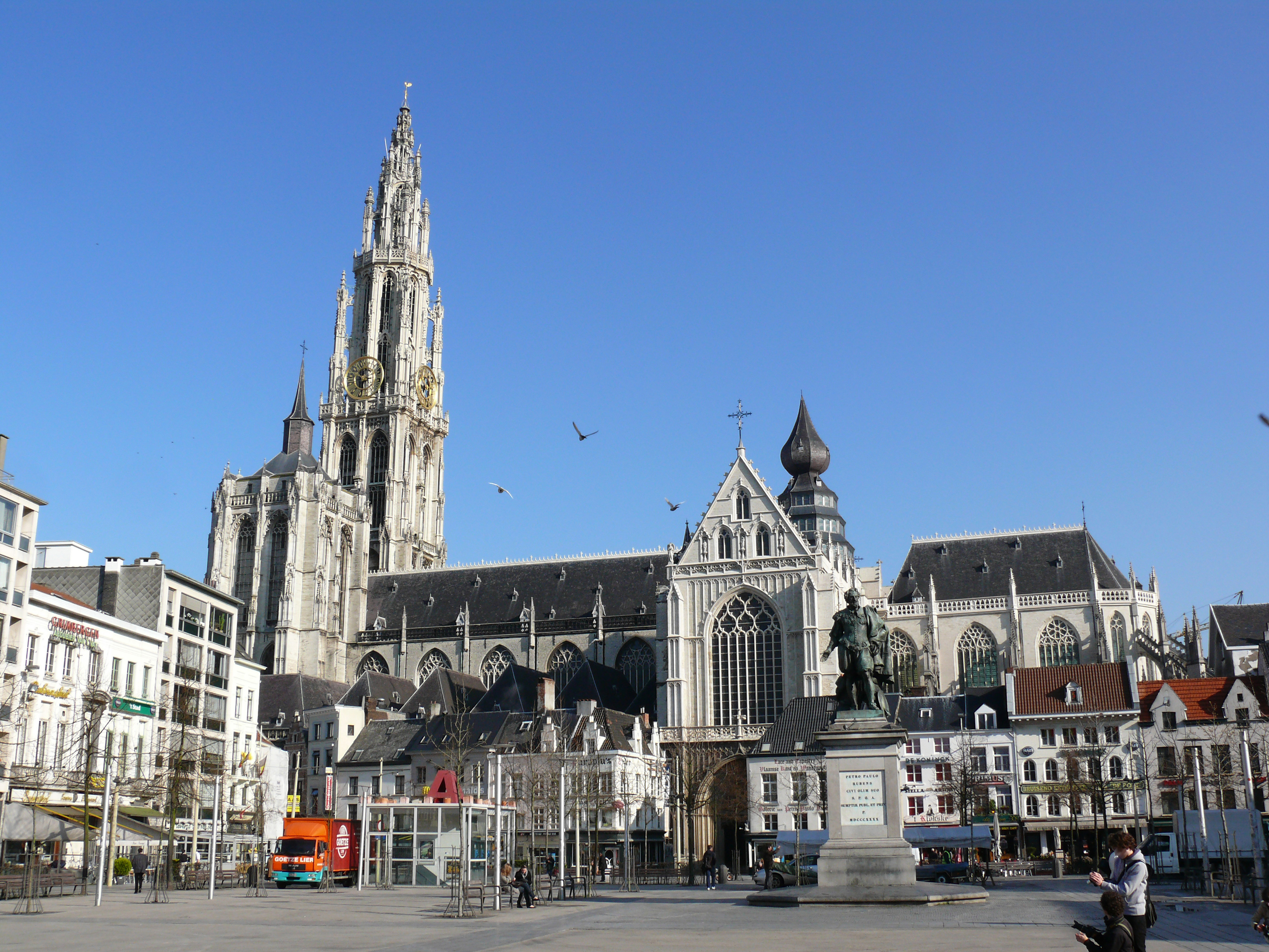 Our Lady's Cathedral, Antwerp, as seen from the Groenplaats. The Groenplaats is a square in the centre of Antwerp. the square boasts a statue of Rubens, designed by Willem (Guillaume) Geefs (1805-1883) in 1840. The Cathedral of Our Lady (Dutch: Onze-Lieve-Vrouwekathedraal ten Hemel Opgenomen) is a Roman Catholic parish church in Antwerp, Belgium. The today's see of the Diocese of Antwerp was started in 1352 and, although the first stage of construction was ended in 1521, has never been 'completed'. In Gothic style, its architects were Jan and Pieter Appelmans. It contains a number of significant works by the Baroque painter Peter Paul Rubens, as well as paintings by artists such as Otto van Veen, Jacob de Backer and Marten de Vos.